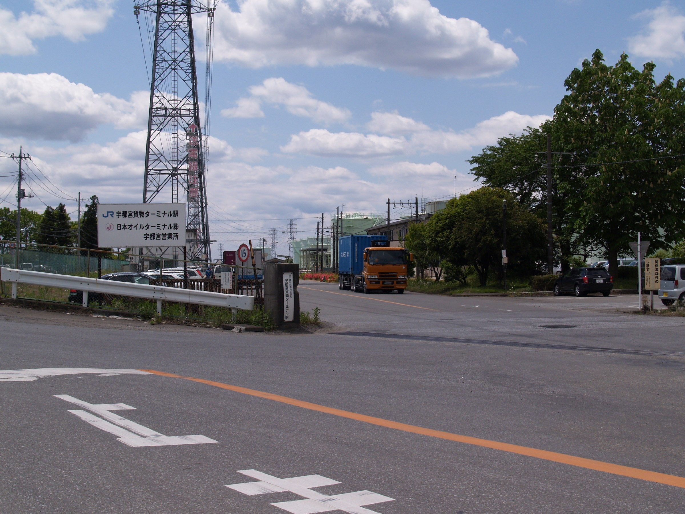 Entrance to Utsunomiya Freight Terminal